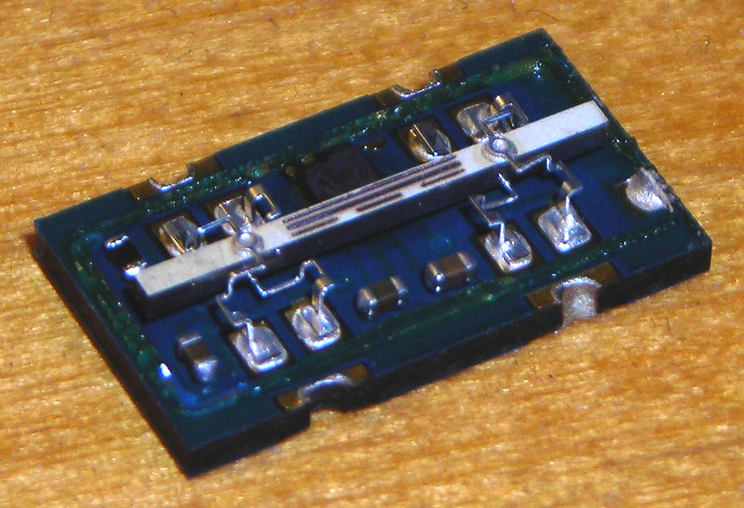 Inside the gyroscope chip of a E-sky Lama V3 radio controlled helicopter